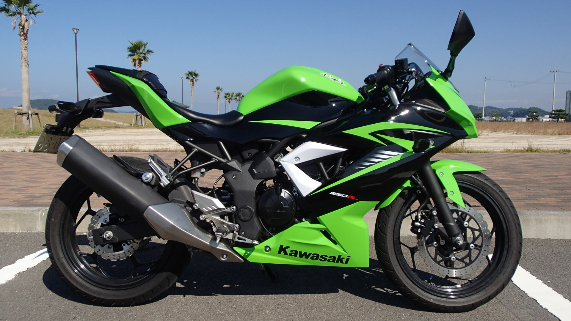 Kawasaki Ninja 250SL 2015 model (Japan specification)